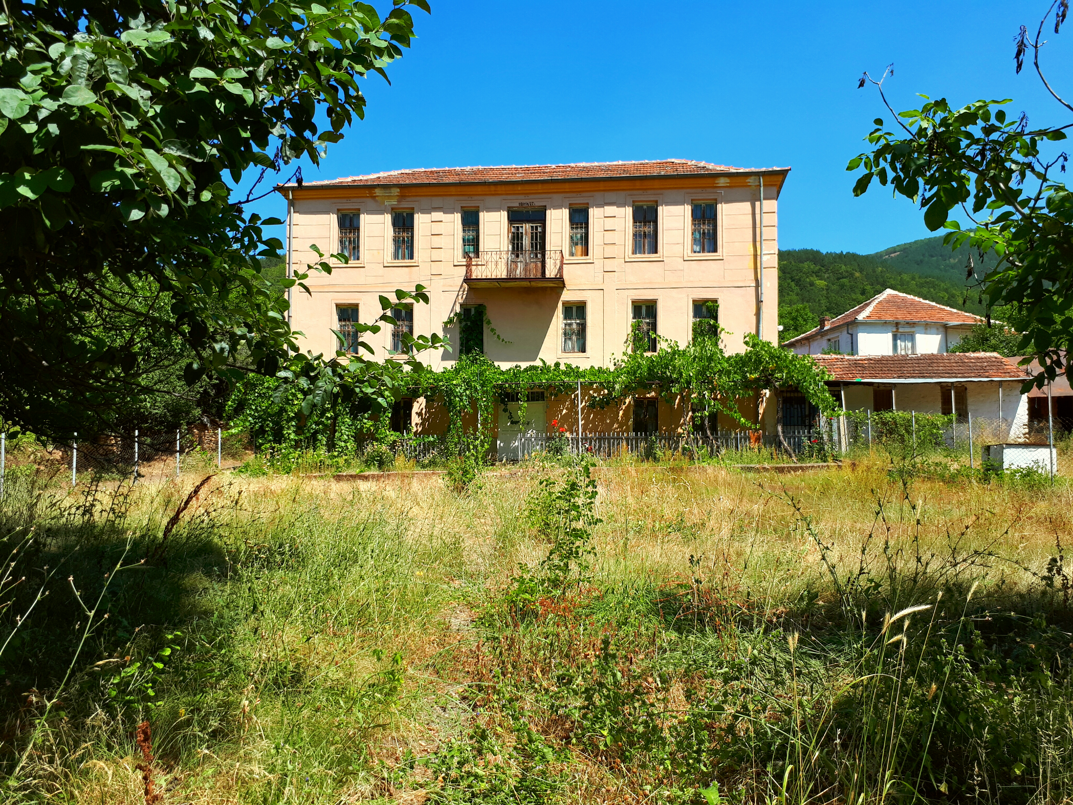 Part of the Veloexpedition in 2017